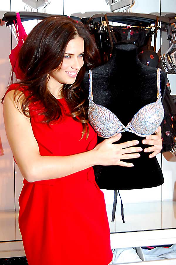 Adriana Lima at Victoria's Secret, Woodfield Mall Store, Schaumburg, IL, USA, with Million Dollar Fantasy Bra by Jeweler Damiani. Photo by Adam Bielawski